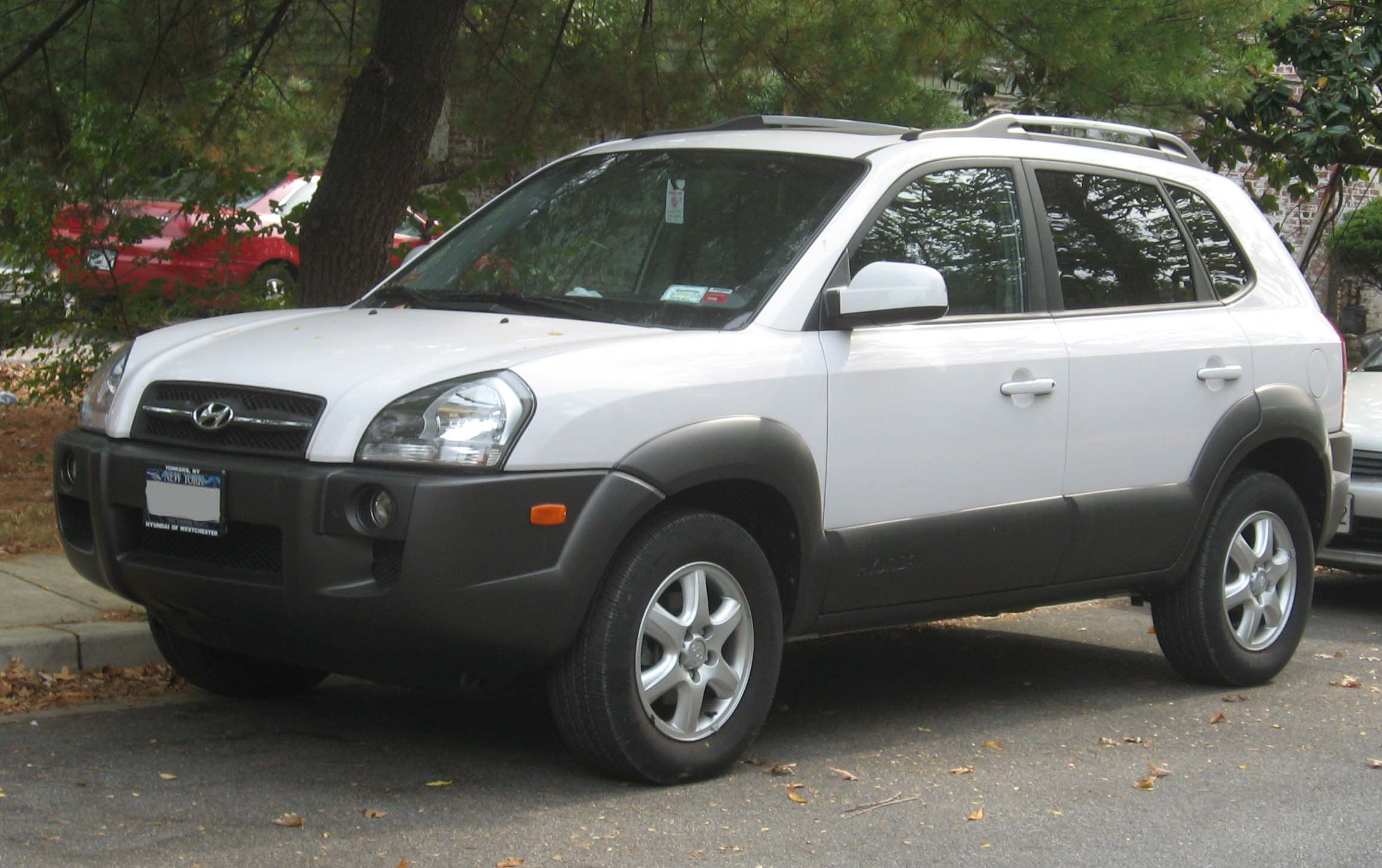 Hyundai Tucson photographed in College Park, Maryland, USA.